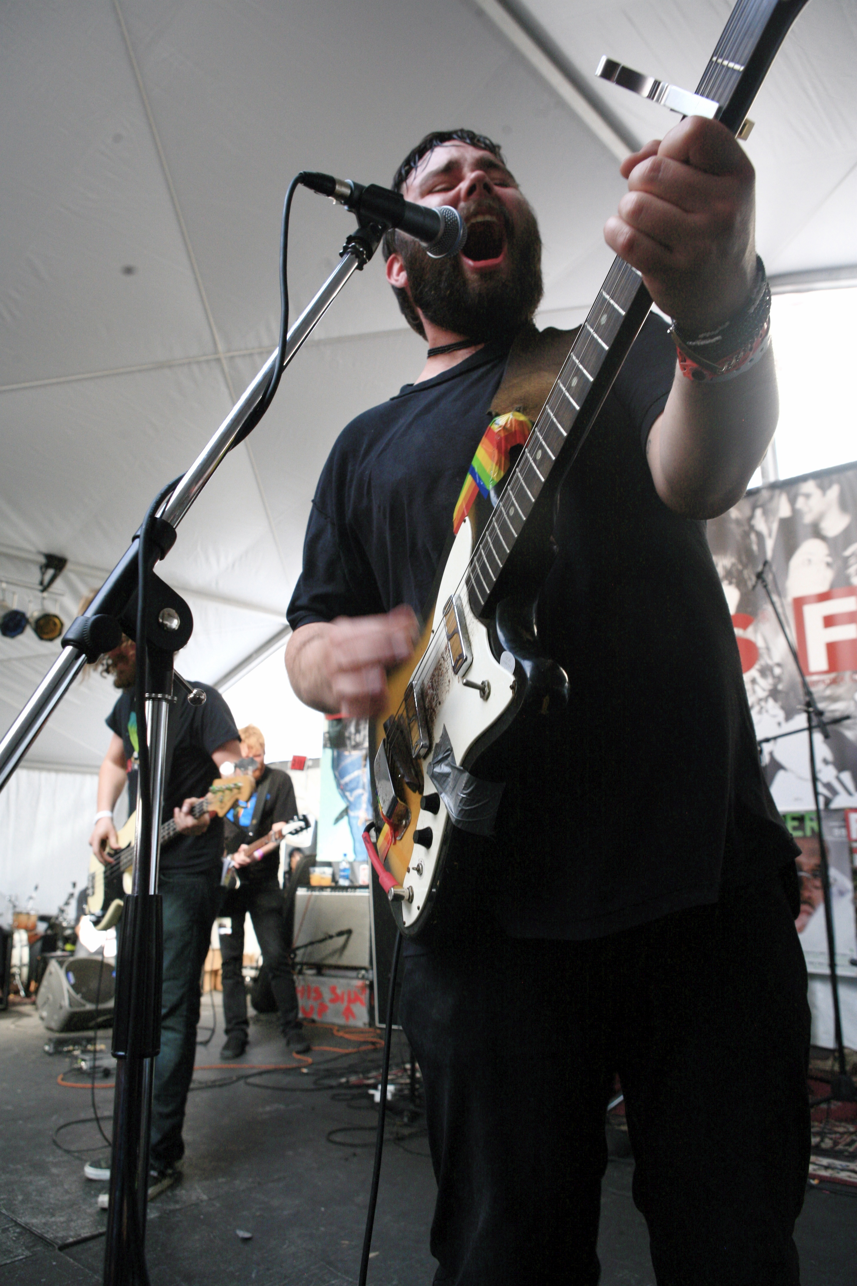 Ladyhawk performing at South by Southwest in 2007. Photographed by Kris Krug.